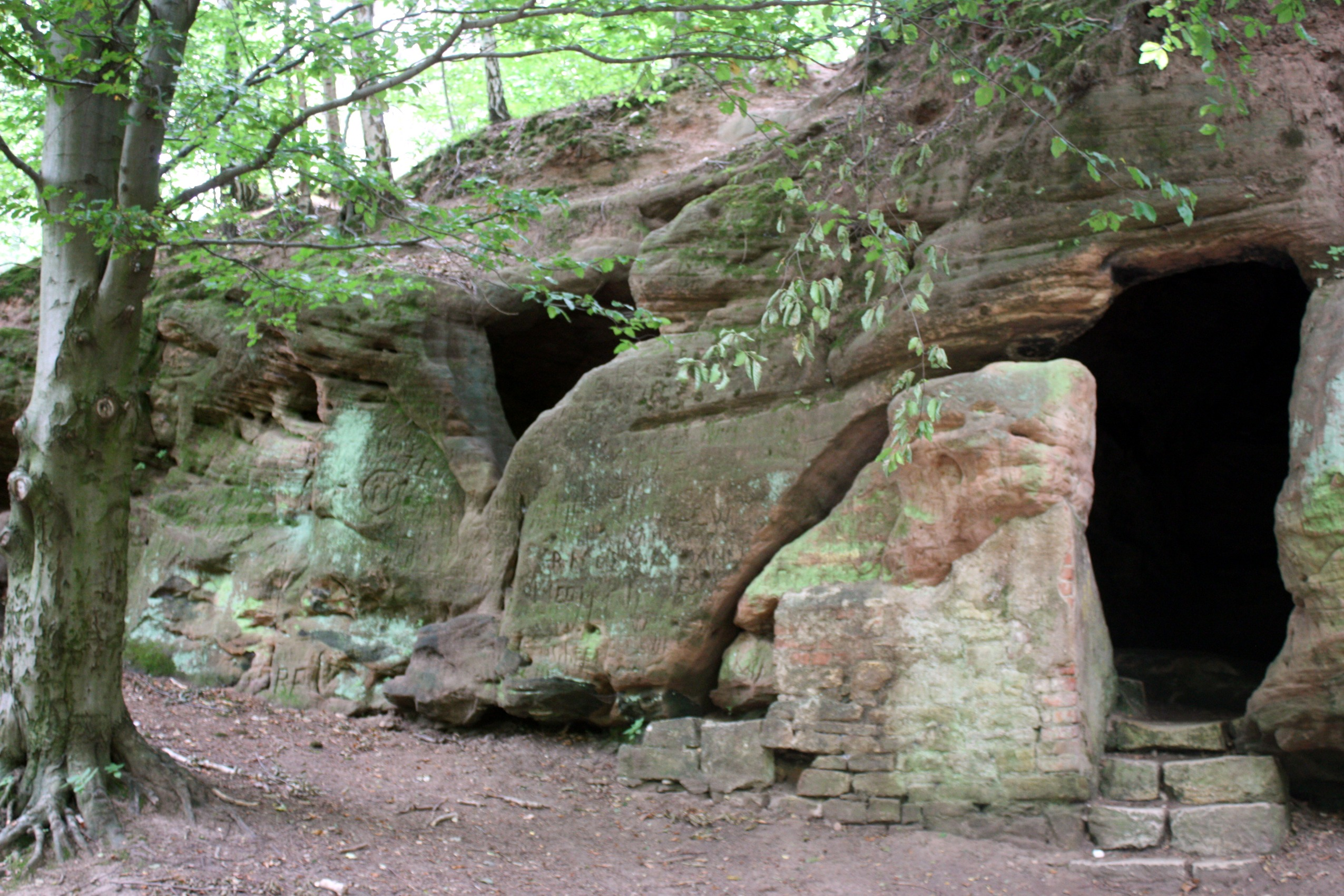 Huy (Saxony-Anhalt), the Daneils Cave